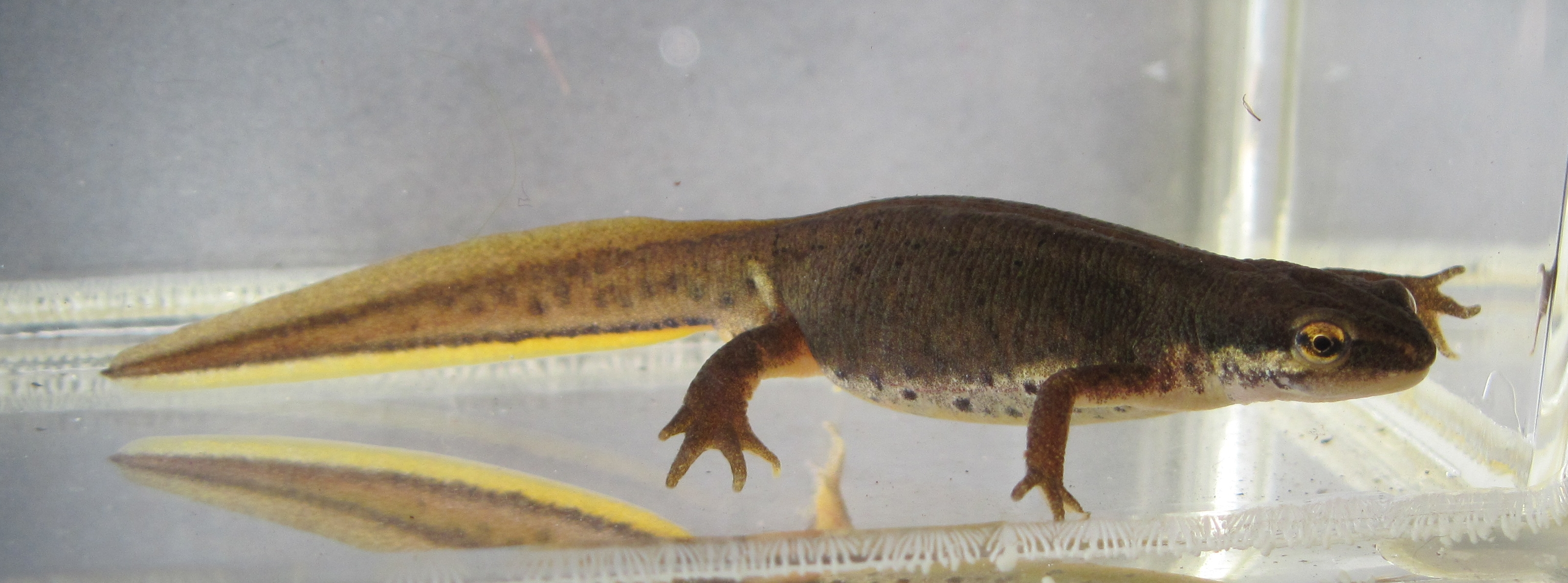 Palmate newt, female. Origin: Altena, Germany